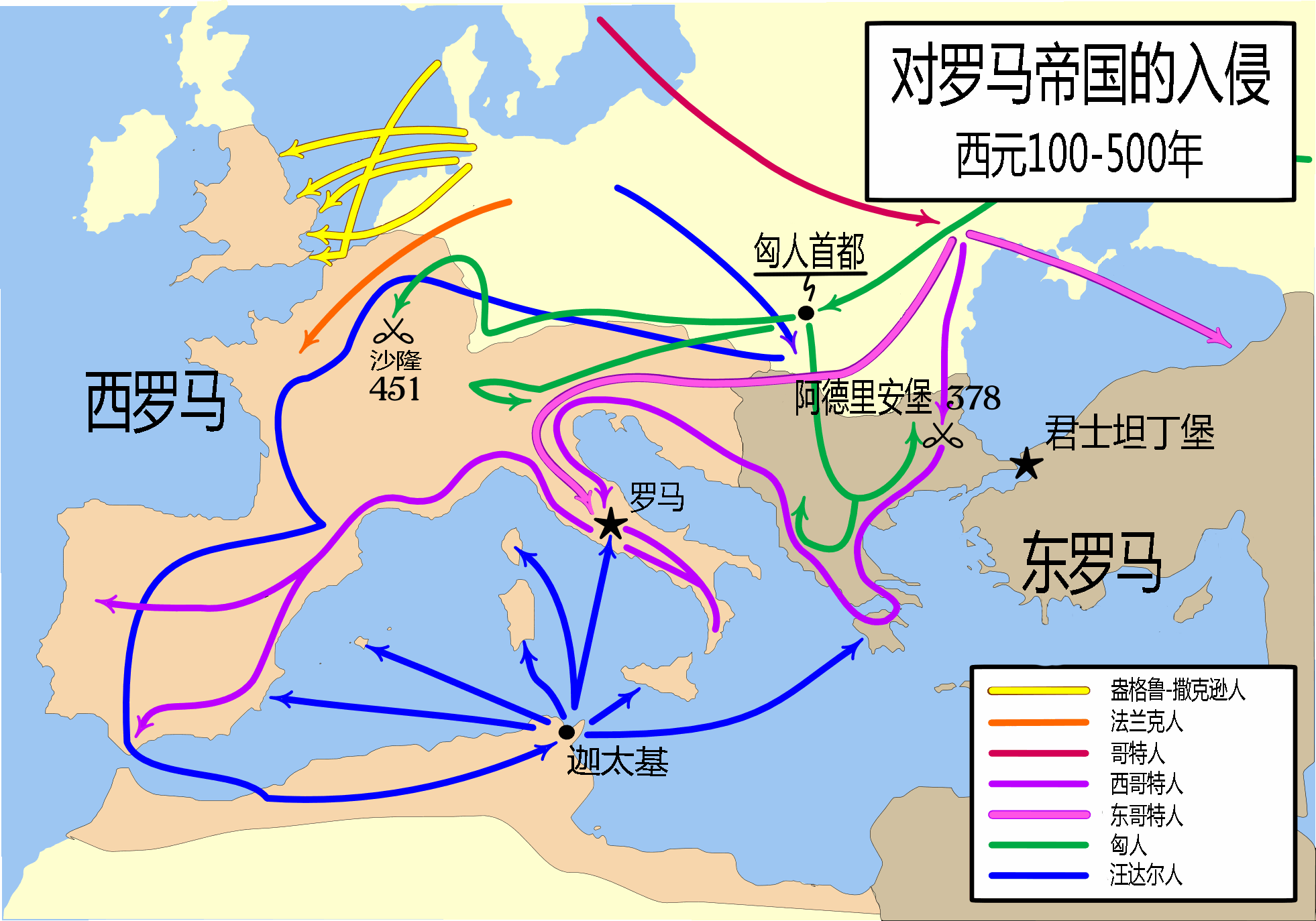 Map of the "barbarian" invasions of the Roman Empire showing the major incursions from 100 to 500 CE.